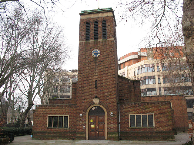 Christ Church, Southwark: front view The front of 921995, facing Blackfriars Road.